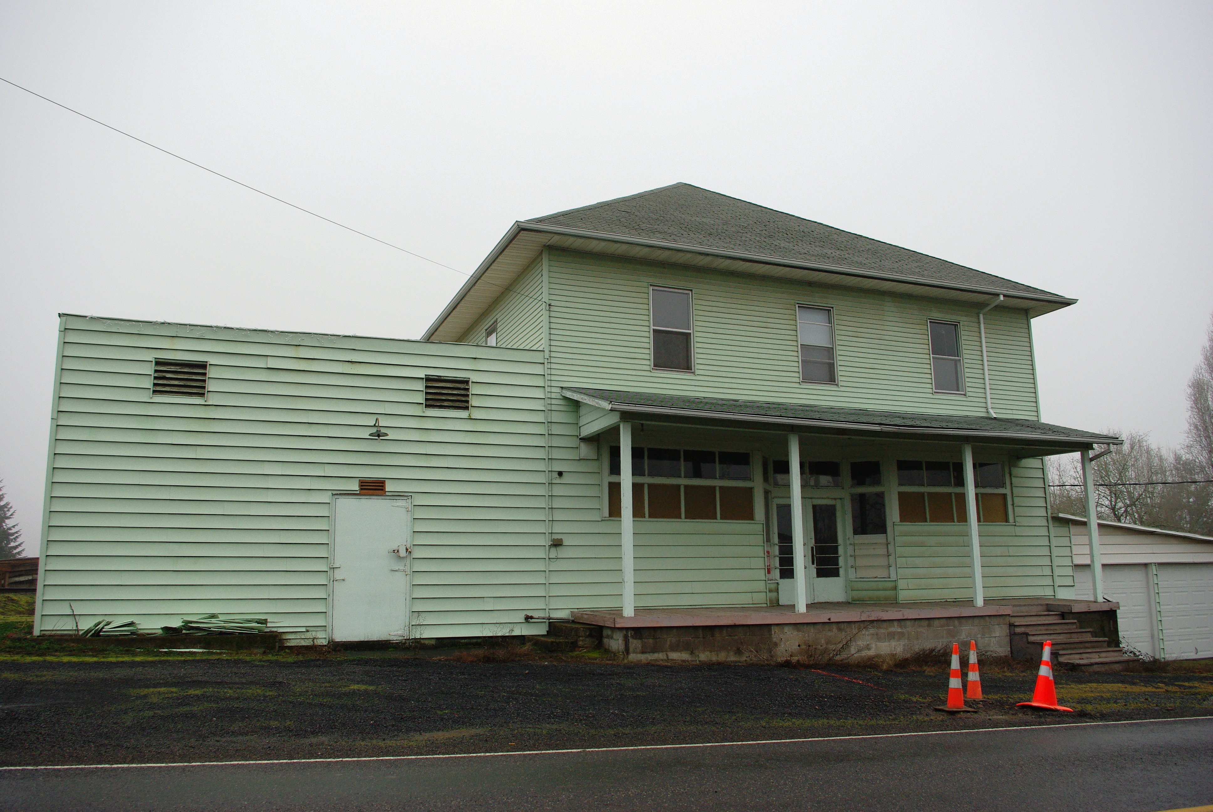 Closed store in Roy, Oregon, USA.